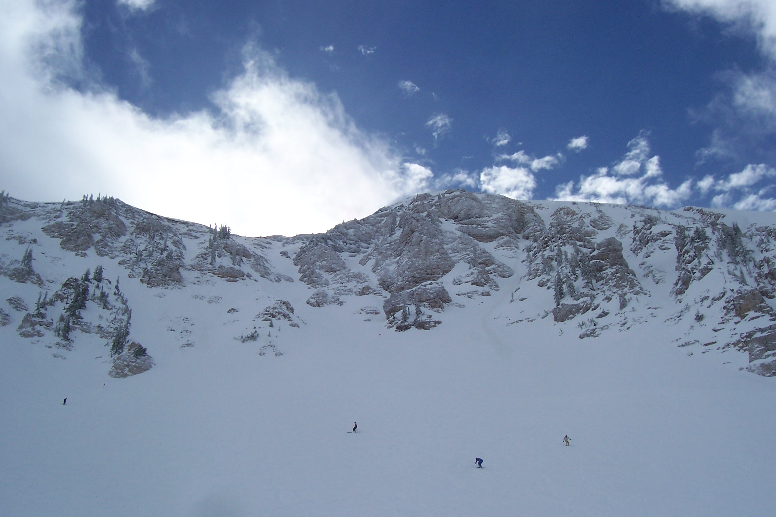 Baldy Chutes, Mount Baldy, at Alta ski resort, Utah